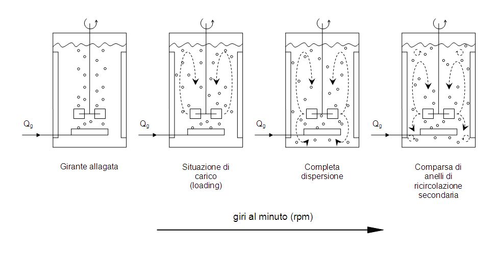 Gas-liquid and liquid-liquid mixing